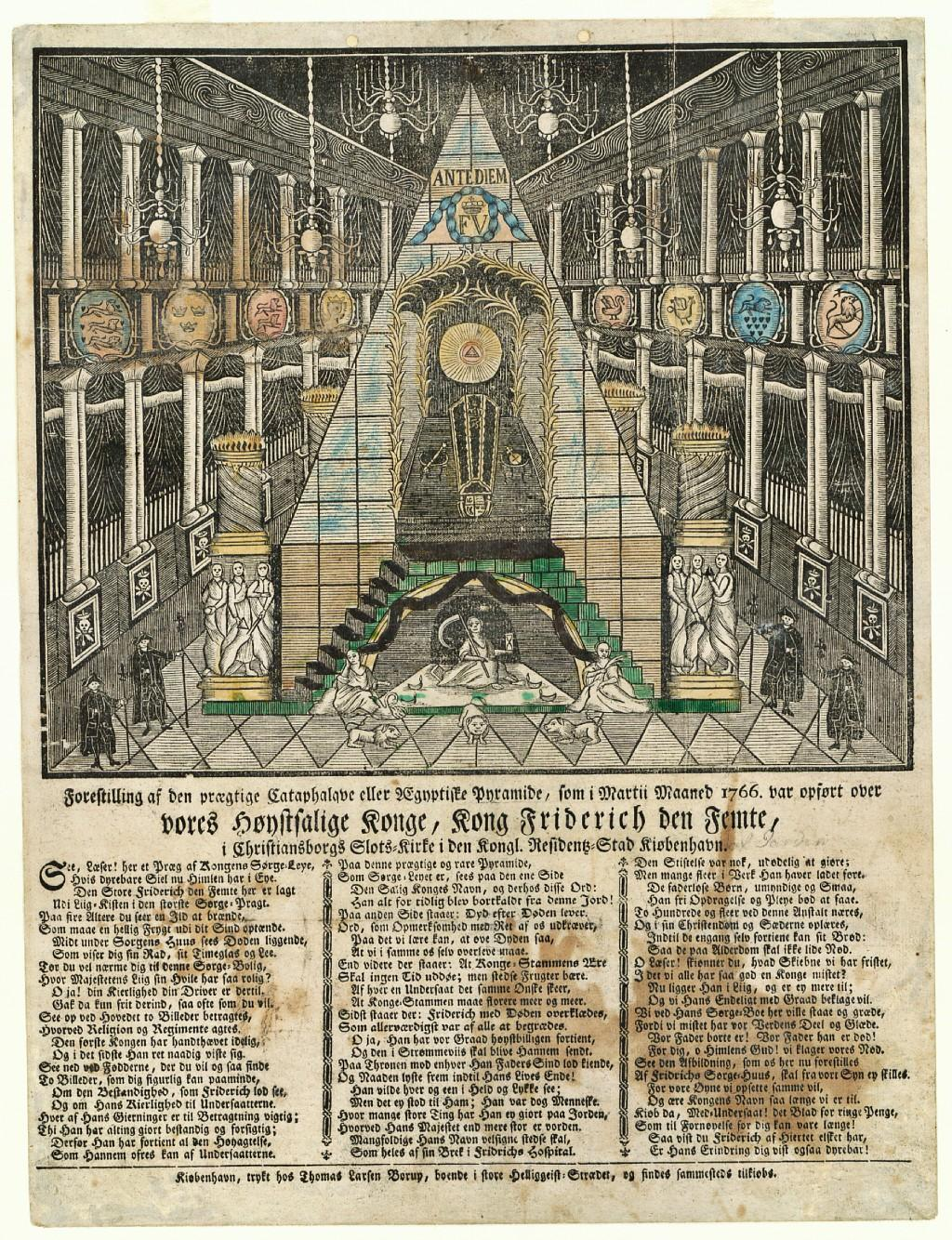 Frederik V of Denmarks Catafalque which was designed by Nicolas-Henri Jardin (1720-1799)